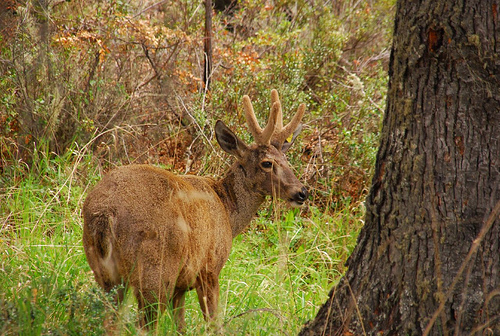 South Andean deer (Hippocamelus bisulcus in Lago Cochrane Nature Reserve